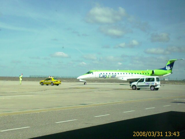 ERJ145 of Lagunair, nearly to stop at Valladolid Airport